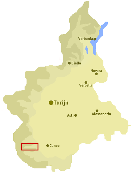 Position of the valley Valle Grana